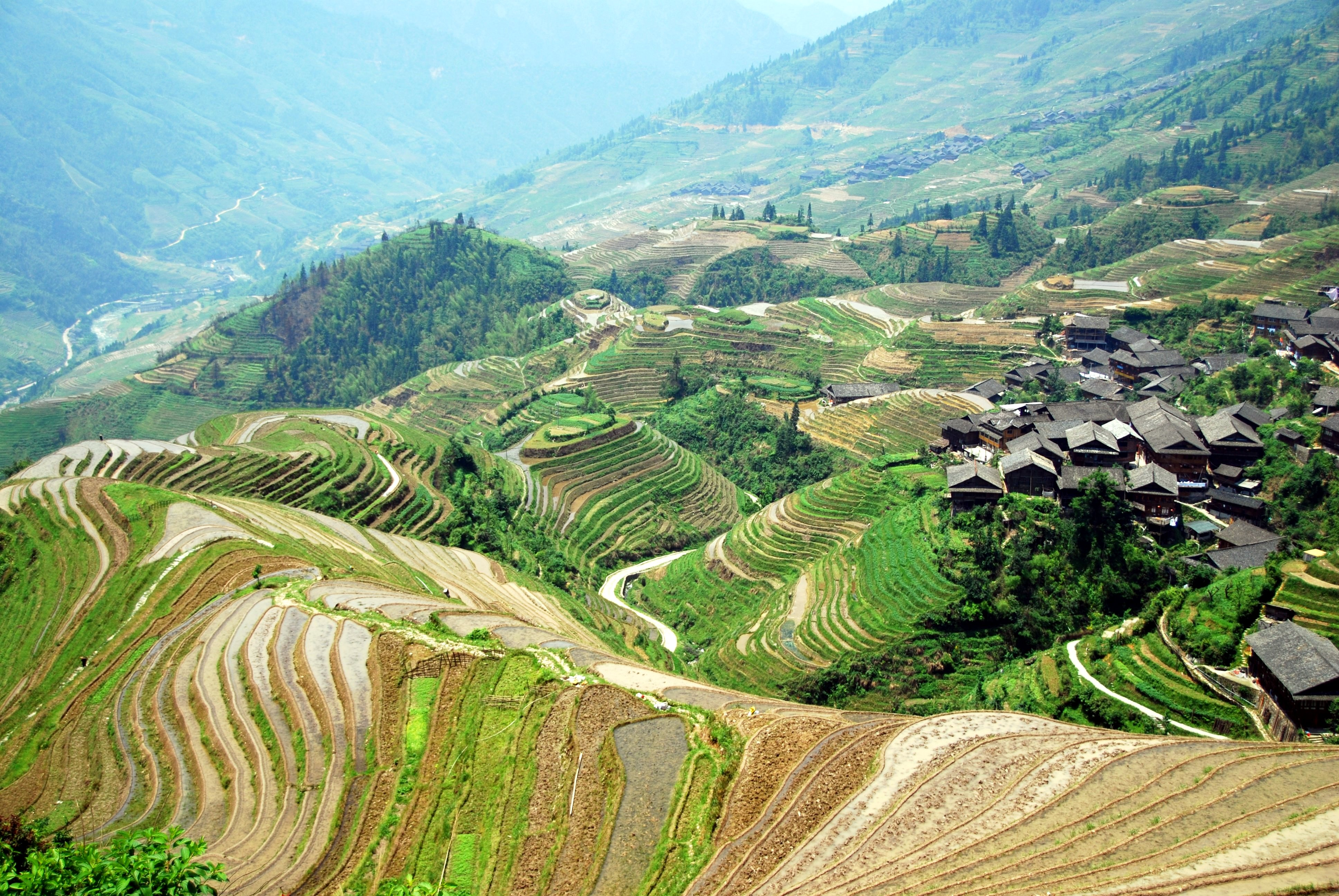 Paddy fields of Longsheng, China